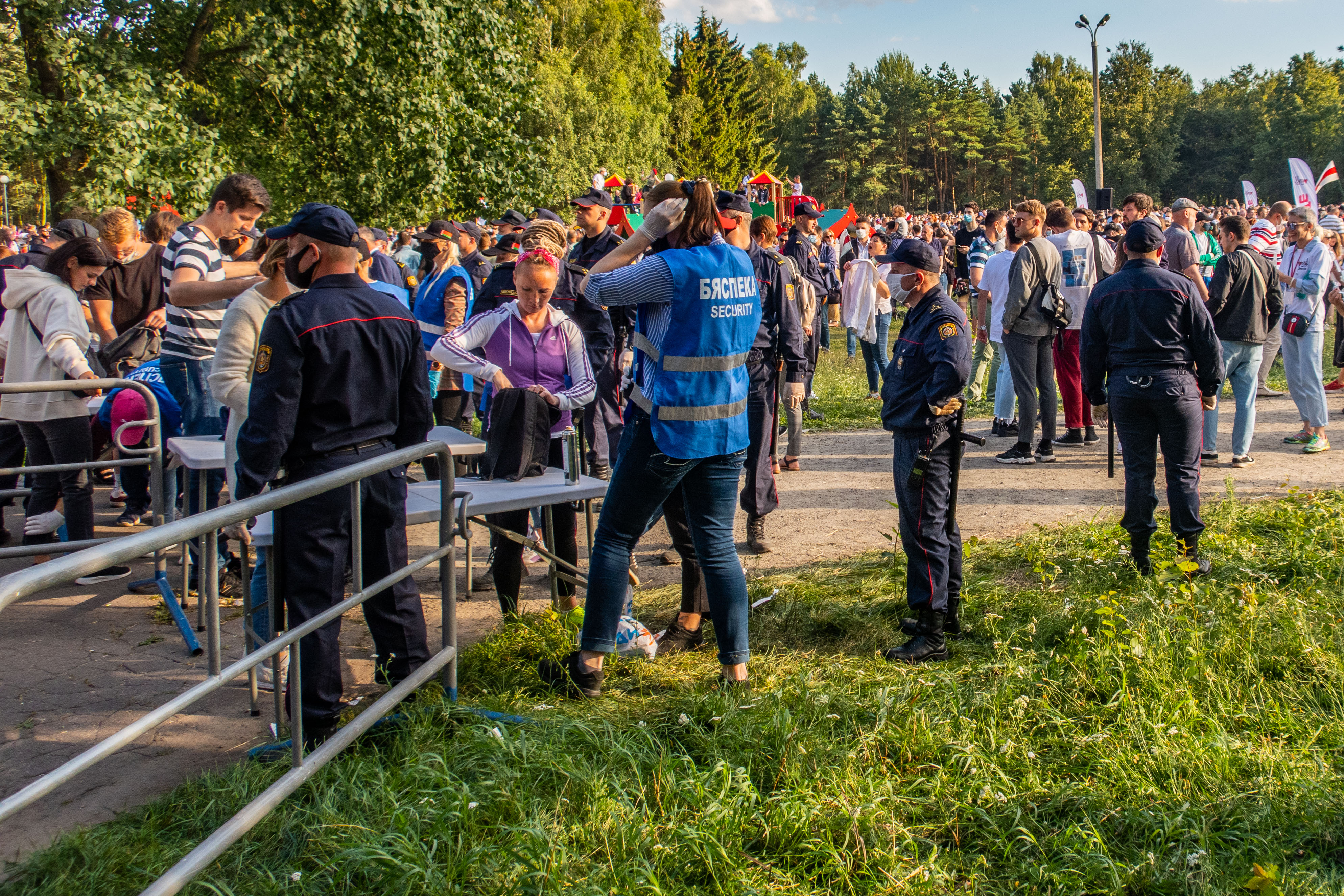 Rally in support of Sviatlana Tsikhanoŭskaya and the joint campaign headquarters. 30 July 2020, Minsk, Belarus